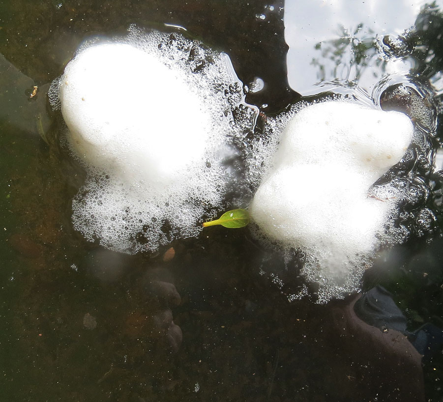 Egg bearing foam of the Tungara Frog or Sapito de Pustulas at the Smithsonian Research Center, Barro Colorado, Panama.